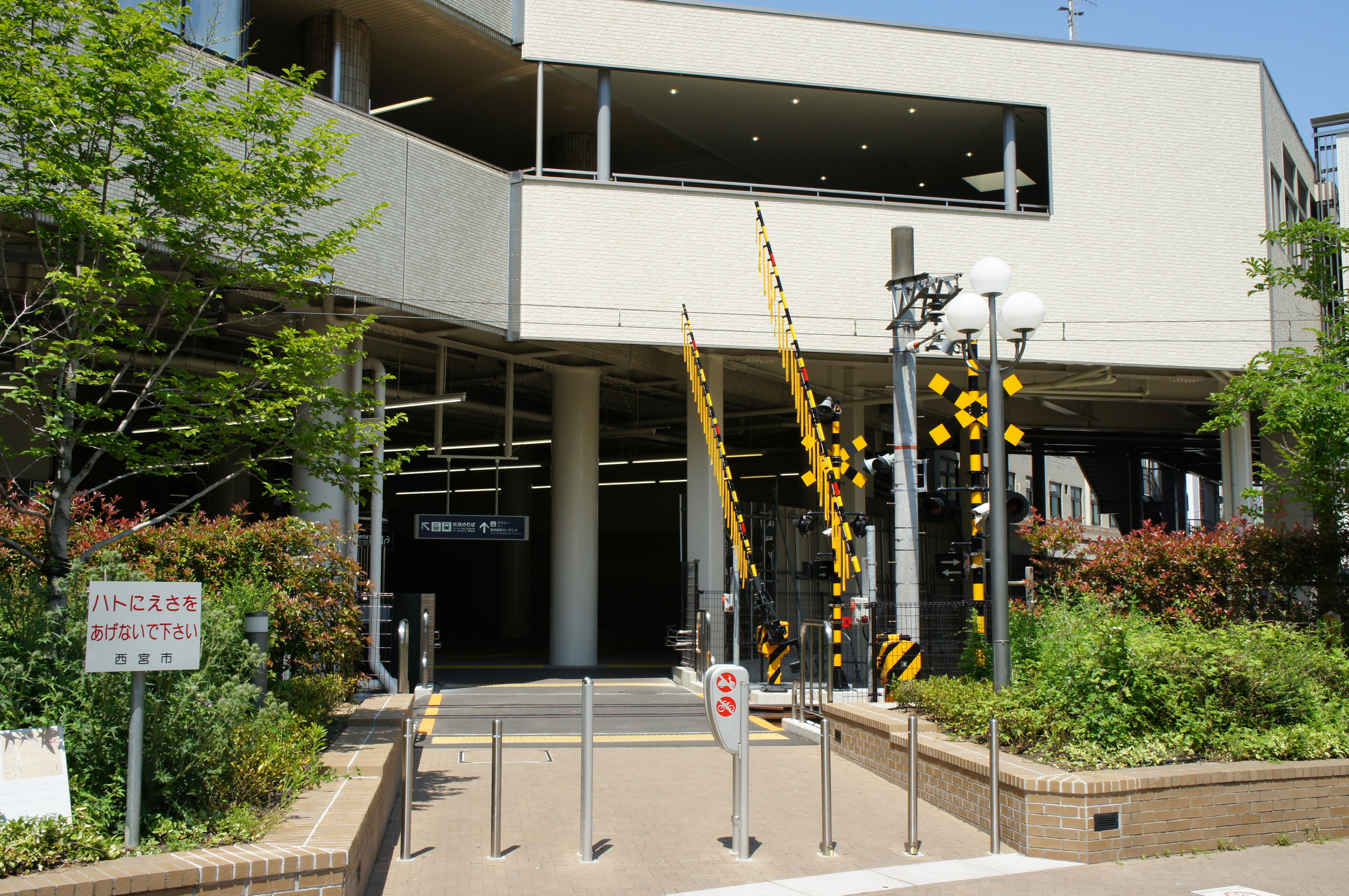 Hankyu Nishinomiya-Kitaguchi Minami railway crossing